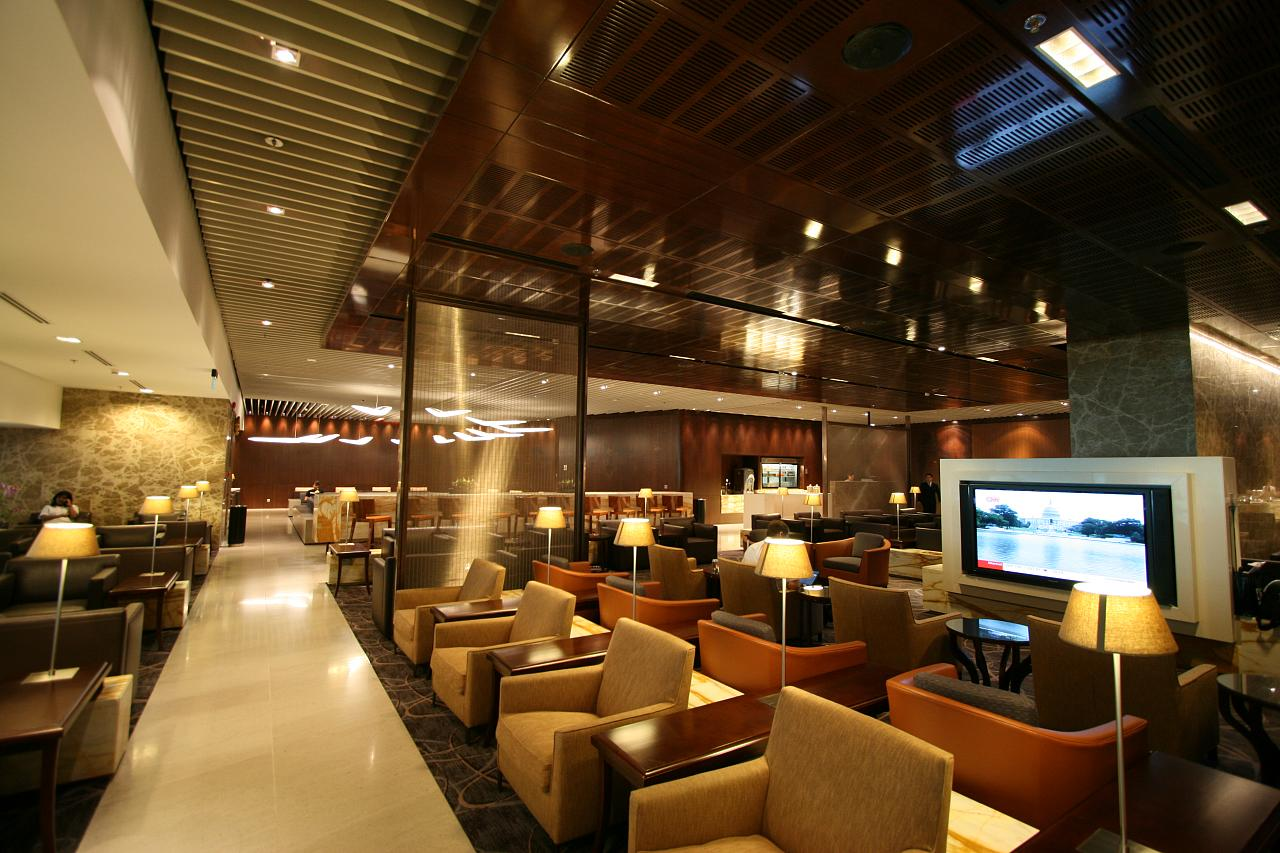 Singapore Airlines SilverKris Lounge at Terminal 3 of Airport Singapore-Changi.